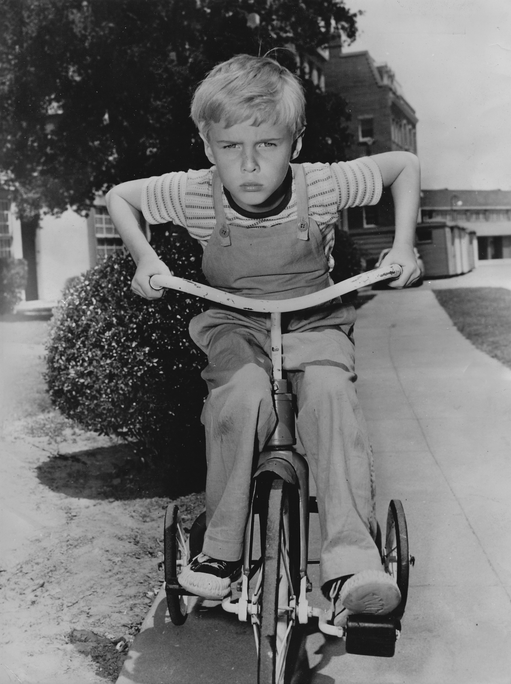 Publicity photo of child actor Jay North promoting his starring role on the CBS television comedy series Dennis the Menace.